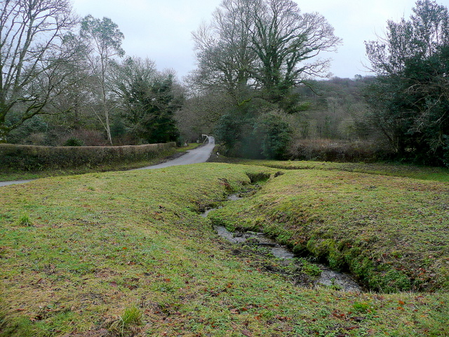 Looking towards Respryn Bridge A partly controlled stream makes its way towards the River Fowey.